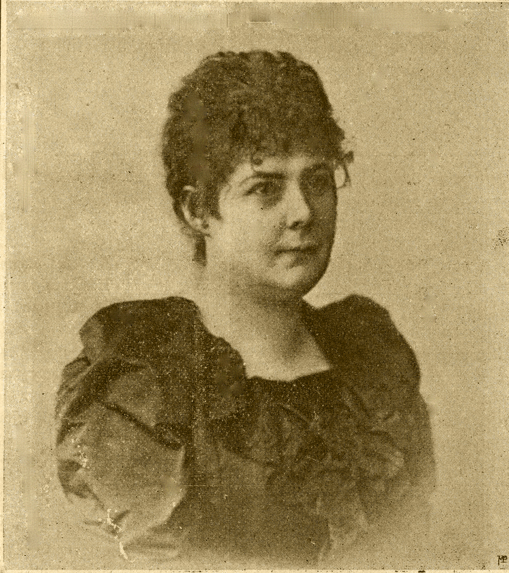 Picture of Nahida Ruth Lazarus